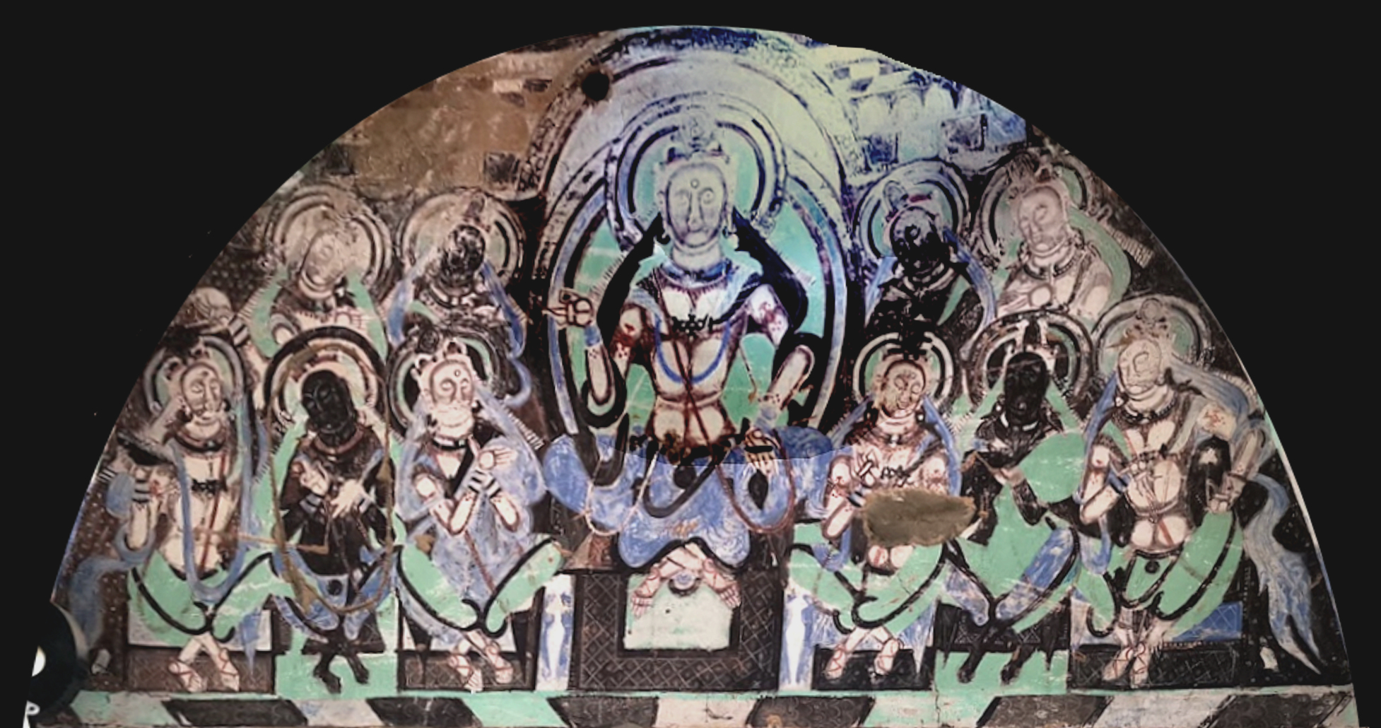 Painting in the 80th division of the Kizil Caves depicting the Six Heretical Teachers per [1]